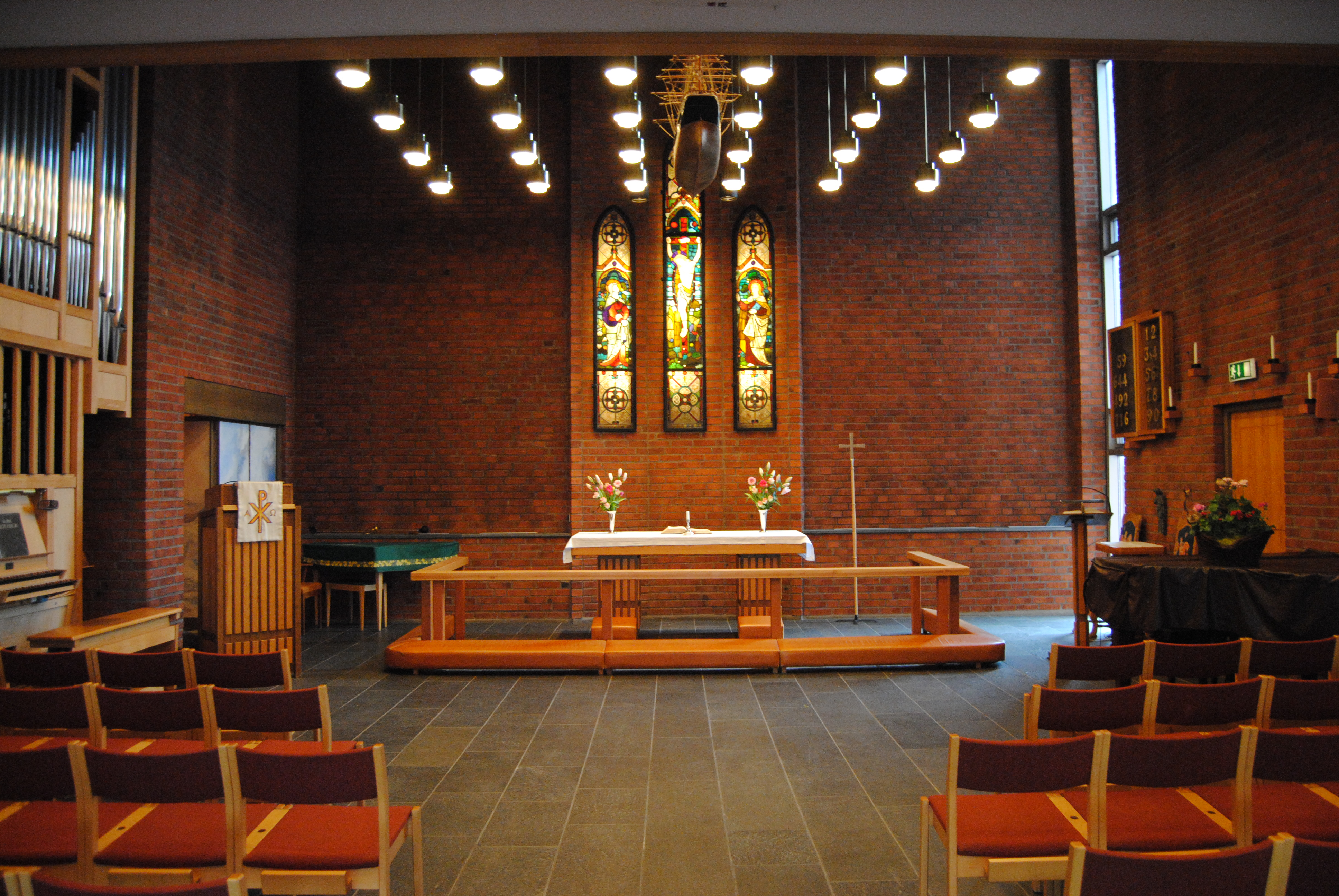 The inside of Kronprinsesse Märthas kirke in Stockholm, the Norwegian church in the city.